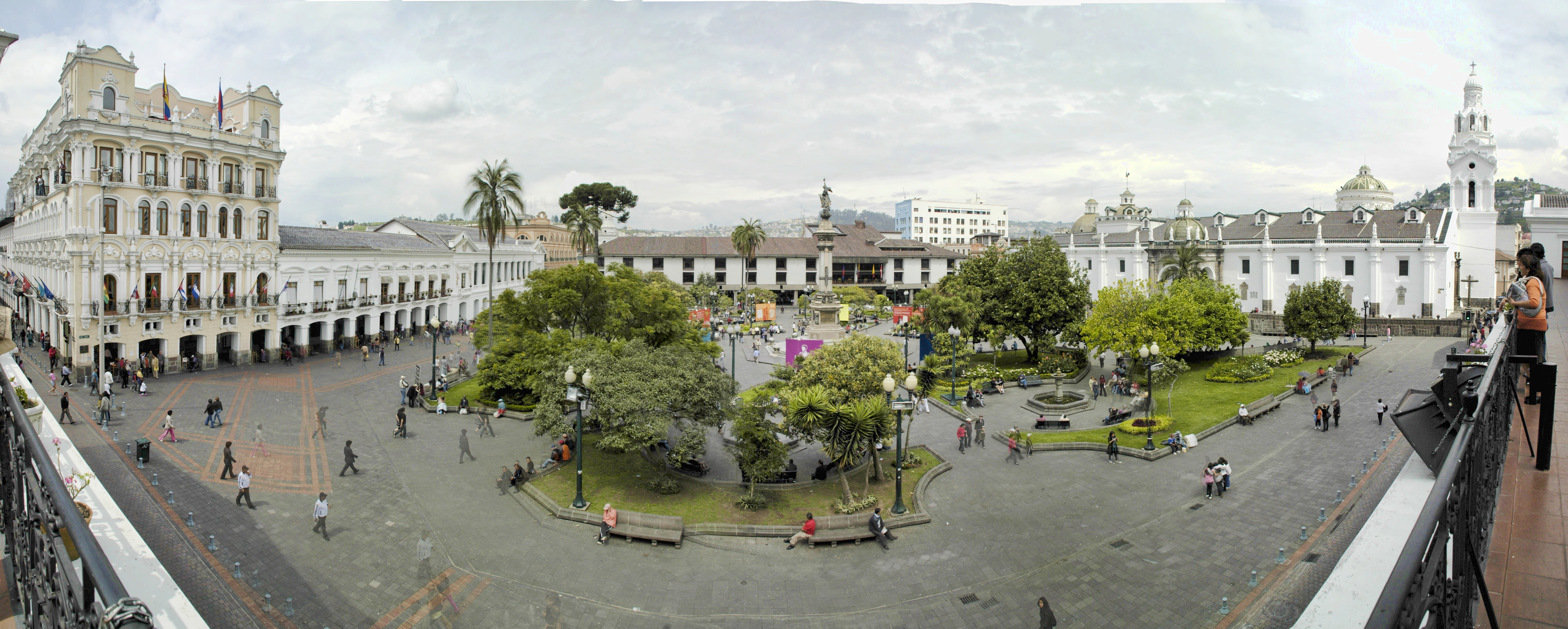 Panoramic view (looking southeast) of the Grand Square (Plaza Grande; renamed Independence Square), Quito, Ecuador. From left to right: Hotel Plaza Grande, Archbishop's Palace, Municipal Palace, the Metropolitan Cathedral.